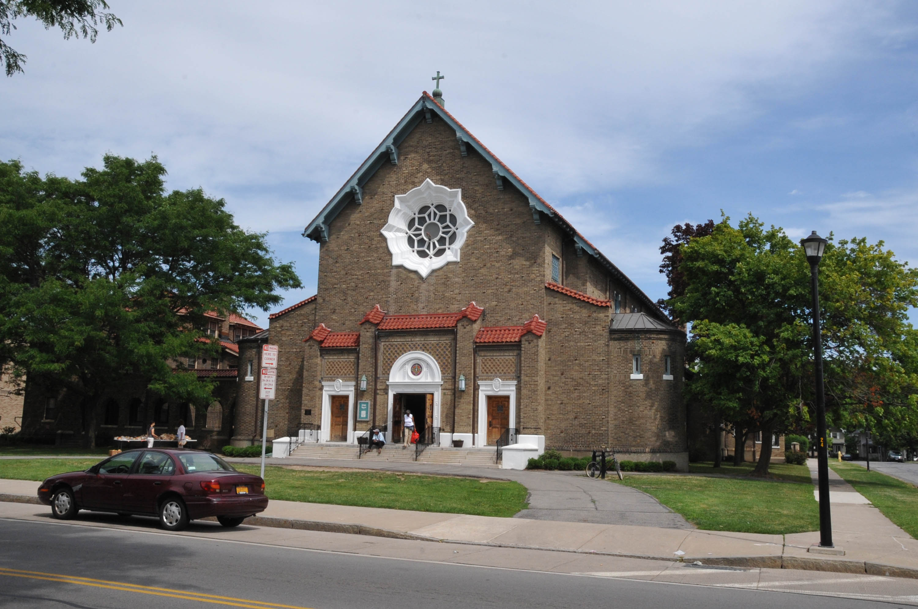 CHURCH WAS BUILT CIRCA 1904 IN SPANISH ECLECTIC MISSION STYLE TO REPLACE AN EARLIER CHURCH WHICH BECAME TOO SMALL WITH THE INFLUX OF IMMIGRANTS FROM EASTERN AND SOUTHER EUROPE. THE CHURCH IS NOW CLOSED AND IS USED AS A COMMUNITY CENTER WITH THE ADJACENT BUILDING TURNED INTO APARTMENTS